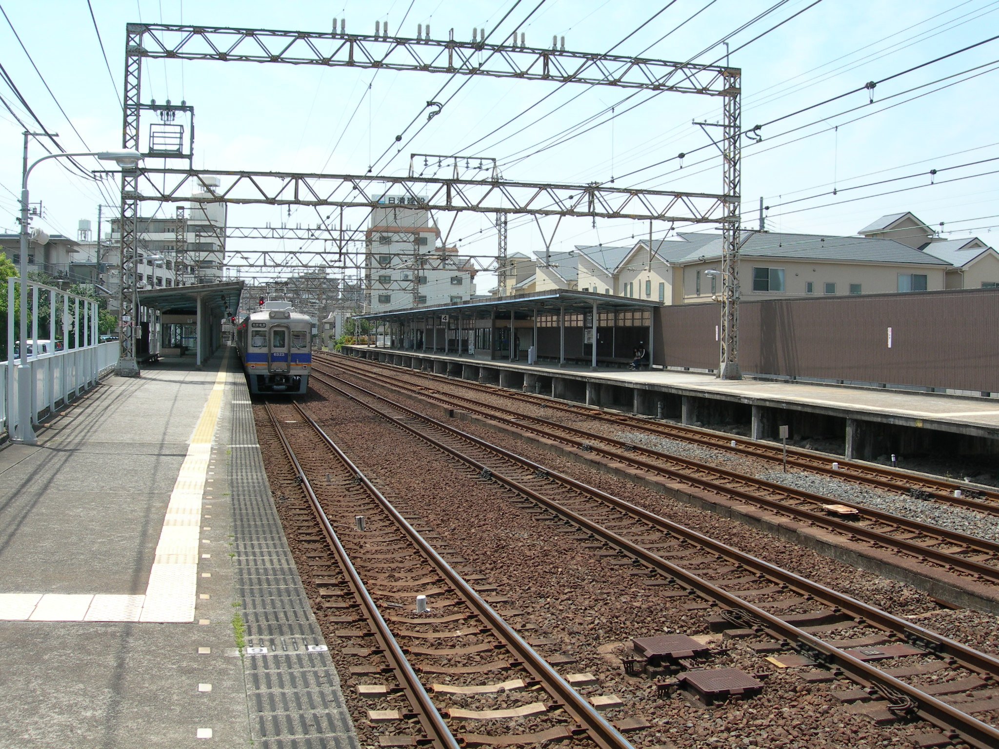 Nankai Kōya LineSumiyoshihigashi Station, Sumiyoshi-ku, Osaka.